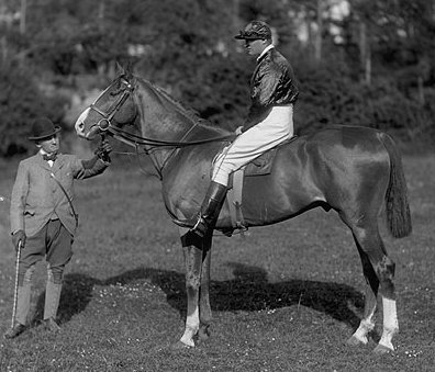 Half-bred Thoroughbred racehorse, Wild Man From Borneo, with jockey and owner Tom Widger holding reins. Wild Man won the 1895 Grand National.